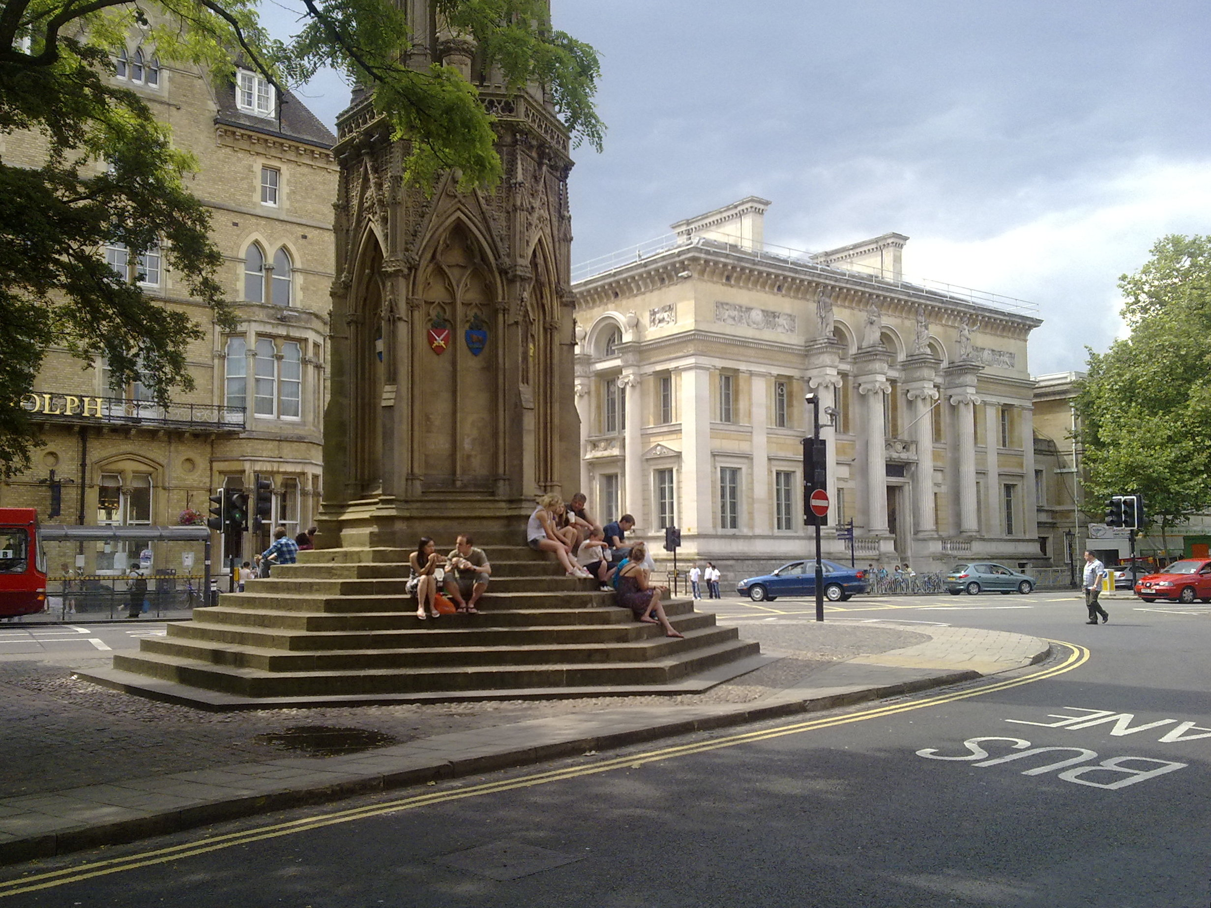 The Taylor Institute (NOT the Ashmolean Museum), Oxford, England, seen from Magdalen Street East, with the Martyrs' Memorial in the foreground